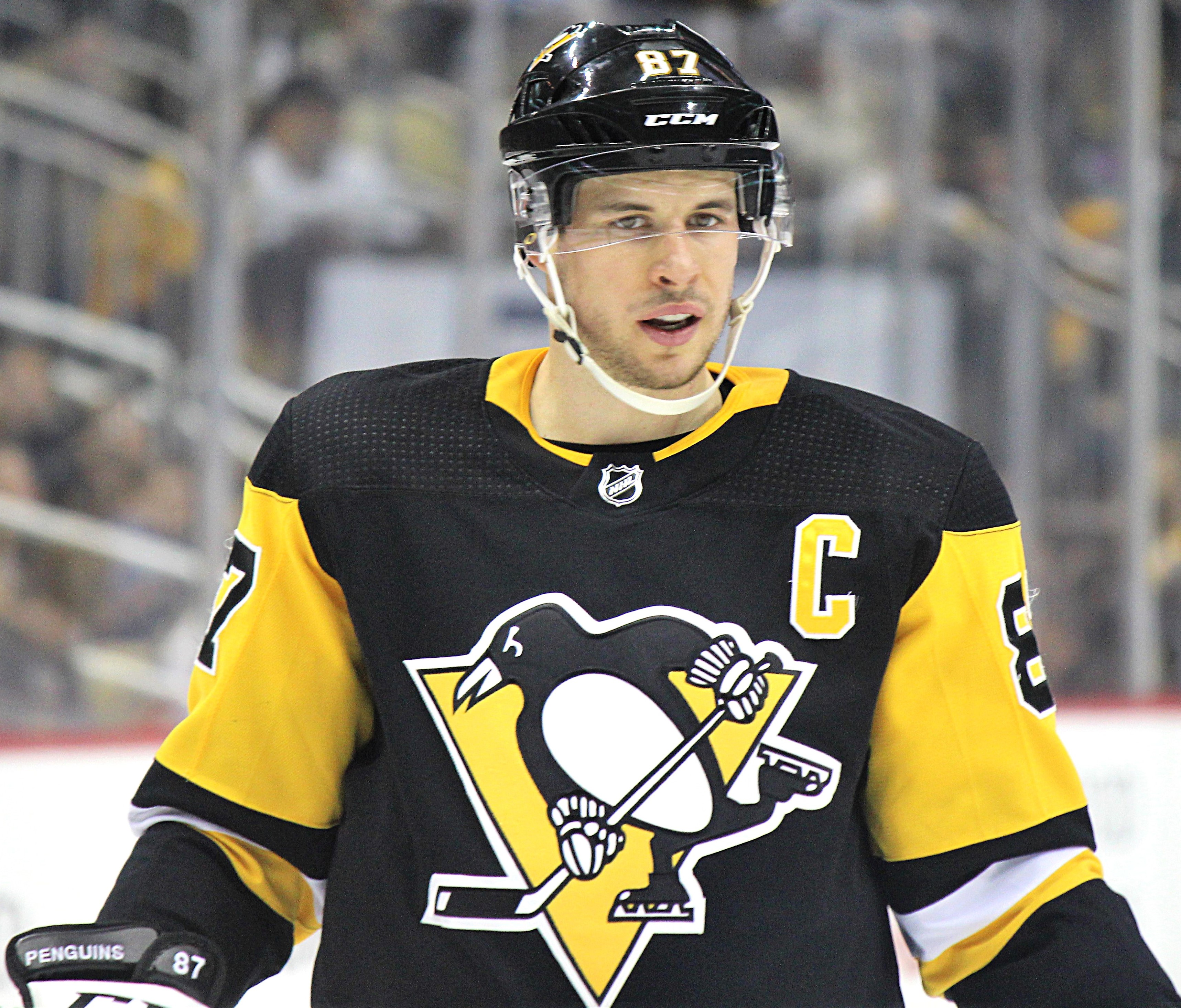 Pittsburgh Penguins captain Sidney Crosby during a game against the New York Islanders, Saturday, March 3, 2018, at PPG Paints Arena in Pittsburgh, PA.